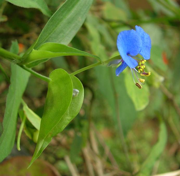 Probably a flower of Commelina caroliniana, Bangalore, India (ID by Djlayton4 04:20, 29 November 2007 (UTC)